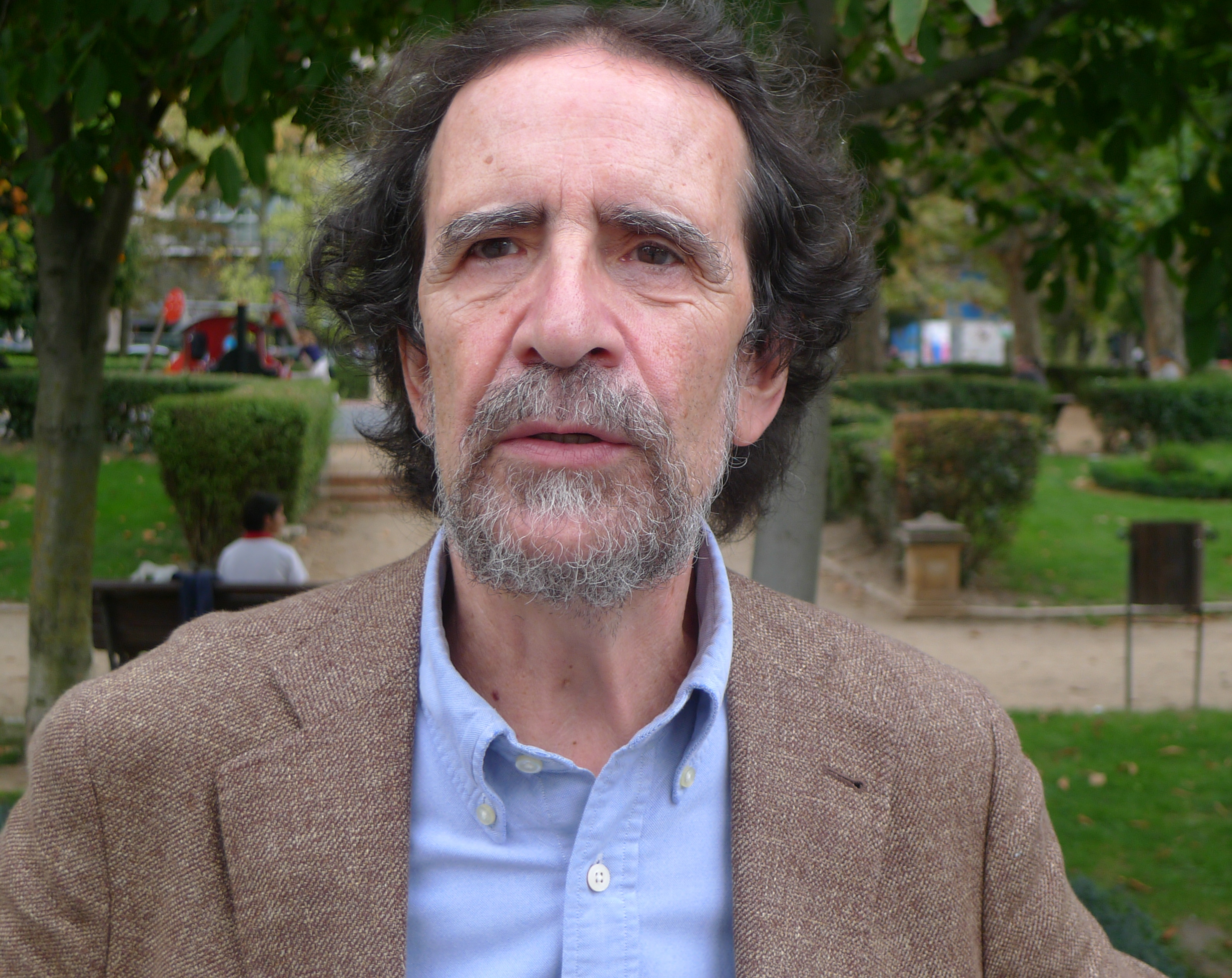 Luis Díaz Viana. Spanish anthropologist and writer. Photography in the Plaza de Poniente, Valladolid, Spain. October 2016